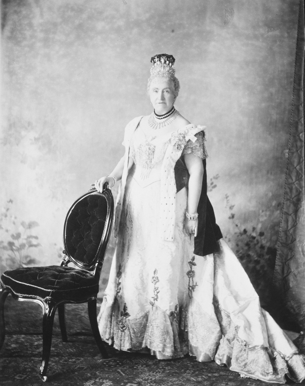 HRH The Grand Duchess of Mecklenburg-Strelitz while at the coronation of Edward VII in 1902